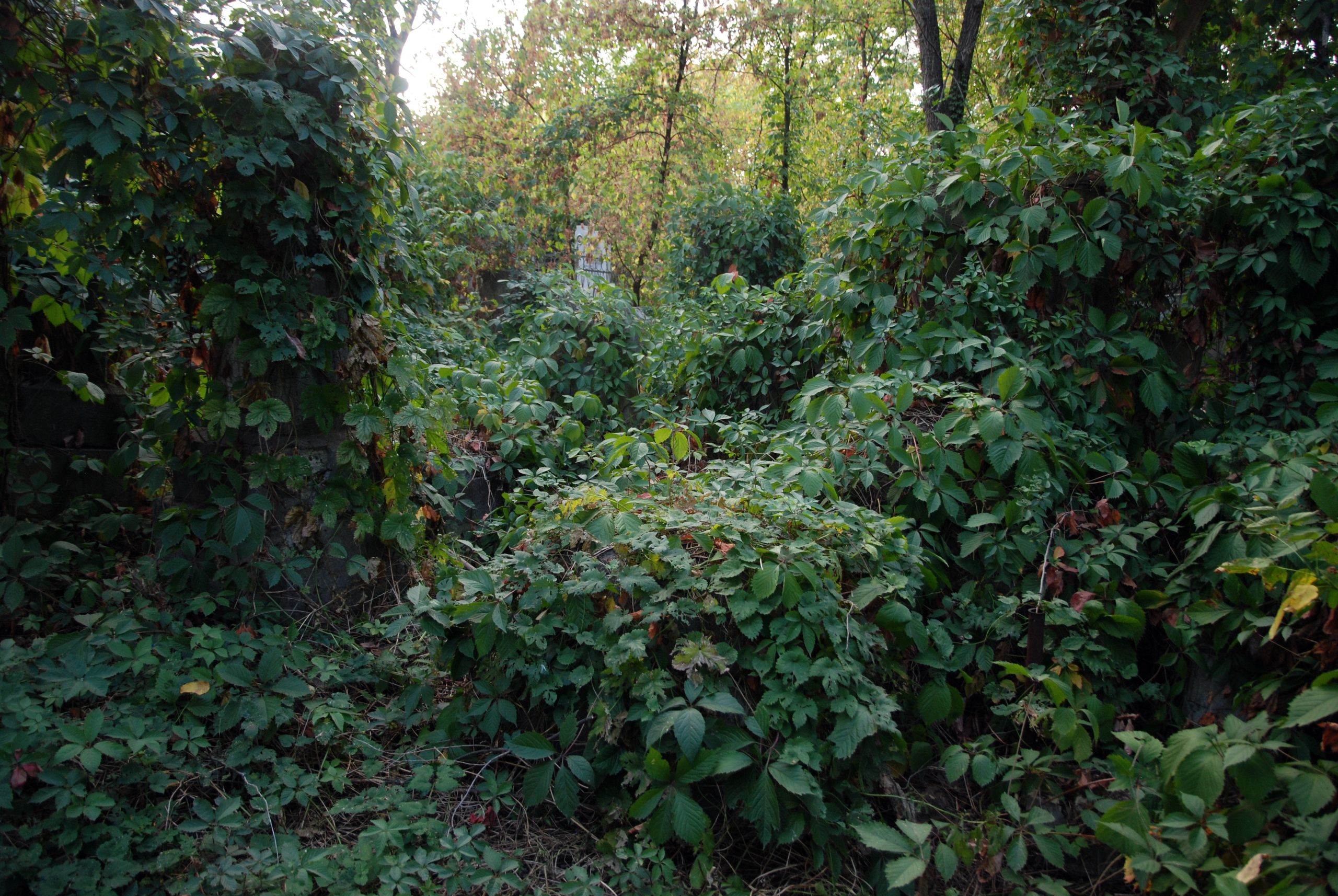 Chișinău, Jewish cemetery